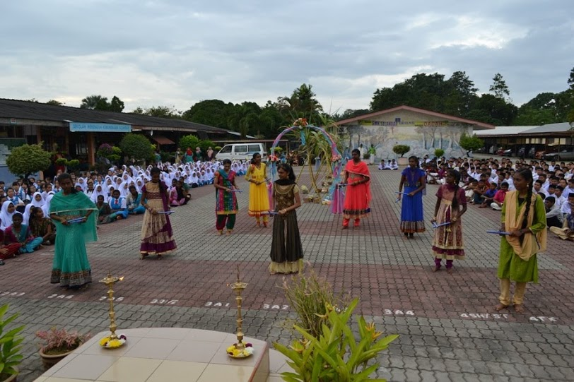 PONGGAL 6